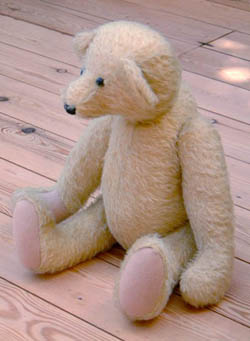 Teddy bear. His name is Rory and he belongs to an old friend.